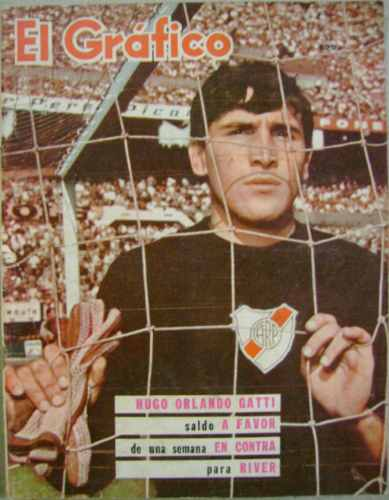 A young Gatti in River Plate